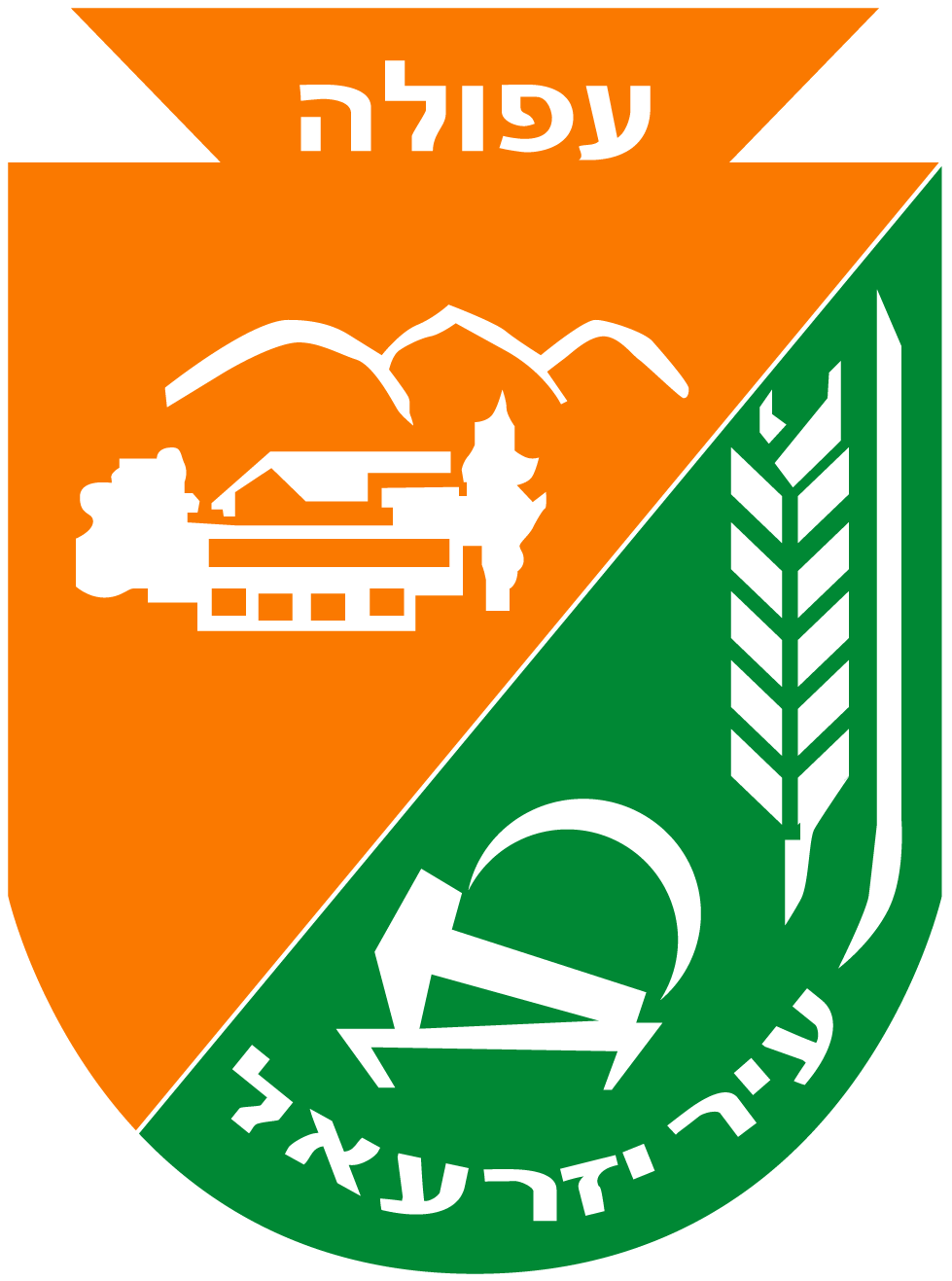 Coat of arms of Afula.